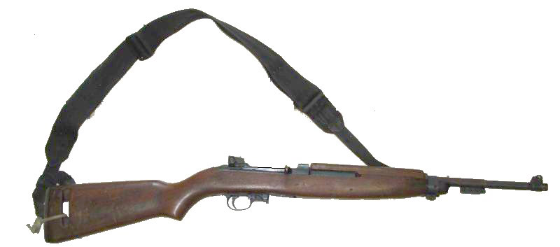 M1 Carbine rifle with ajusted sight, serving in the Israeli Civilian Guard and the Israeli Police Created by Yonidebest from the Hebrew Wikipedia and been edited by MathKnight